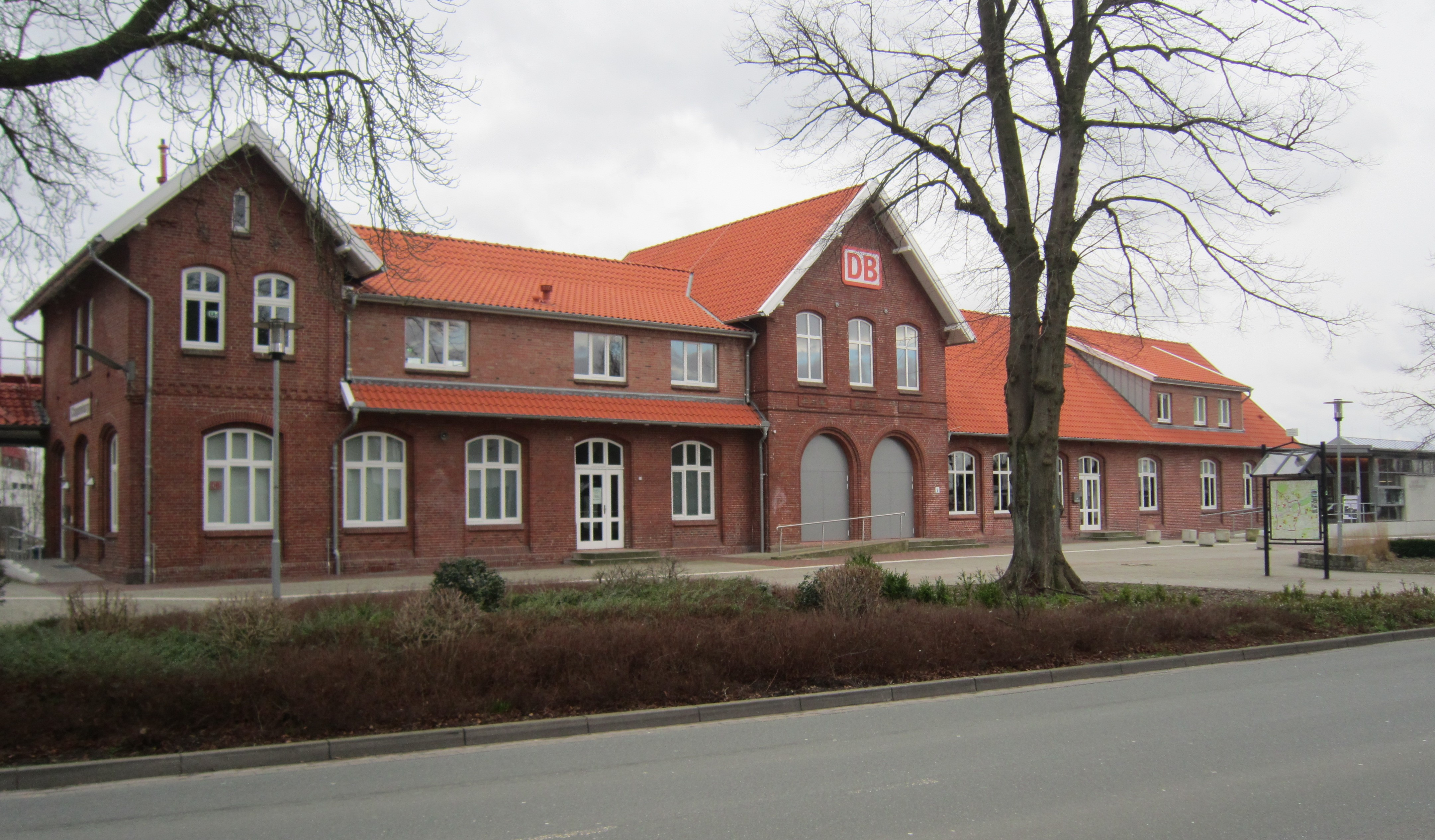 NordWestBahn railway station building in Cloppenburg